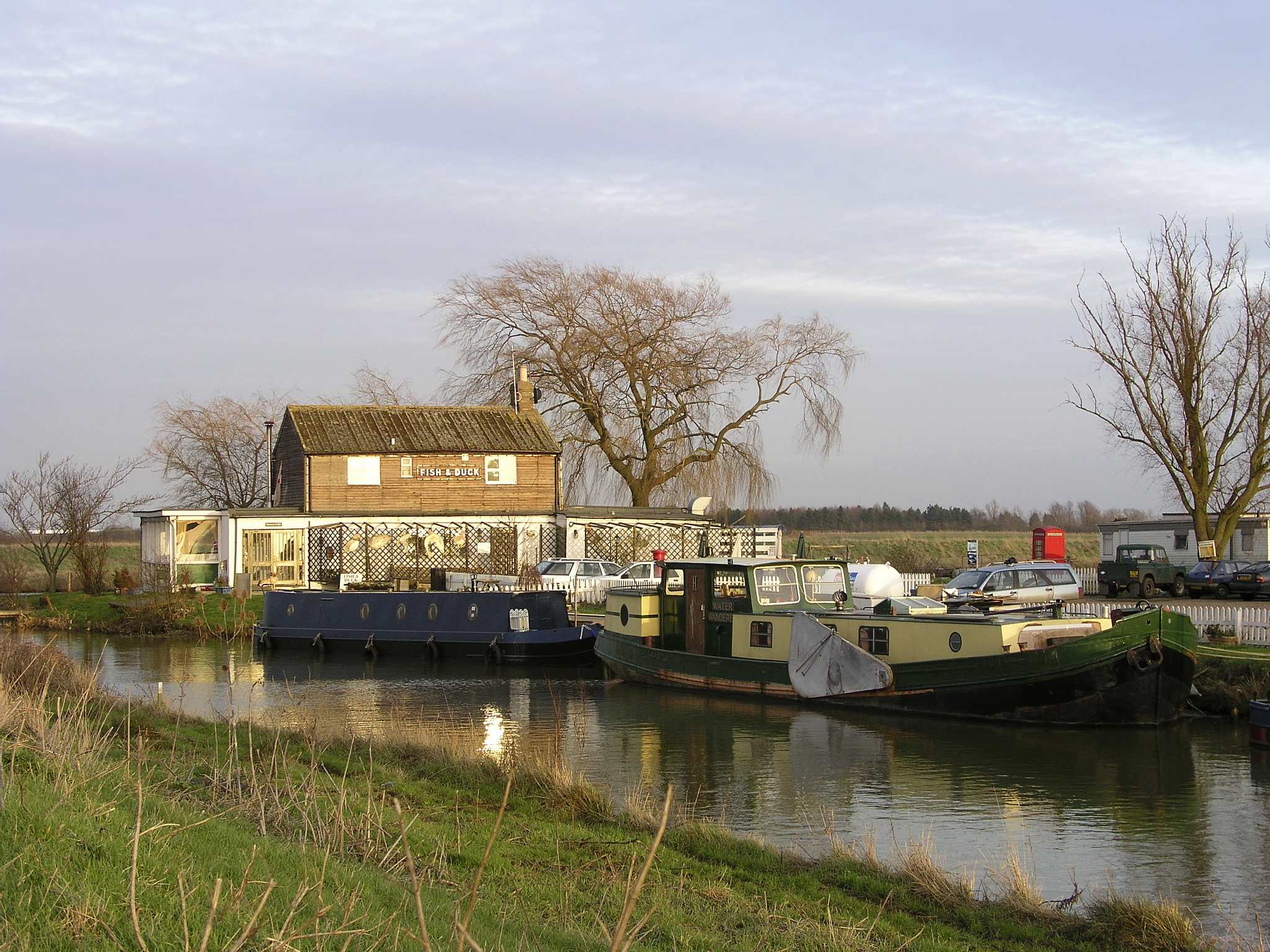 Fish and Duck,, Little Thetford, Cambridgeshire